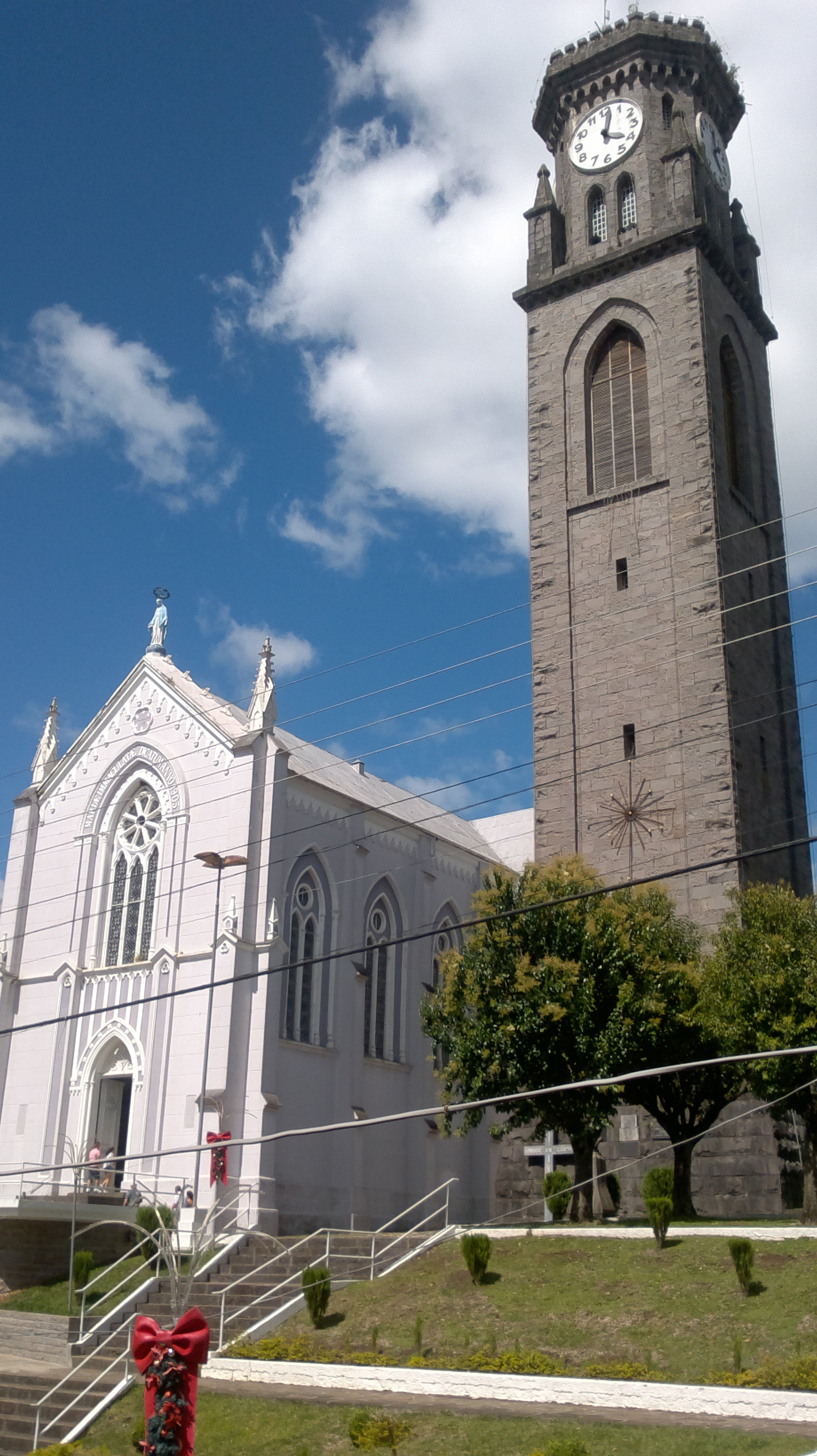 FloresdaCunha31